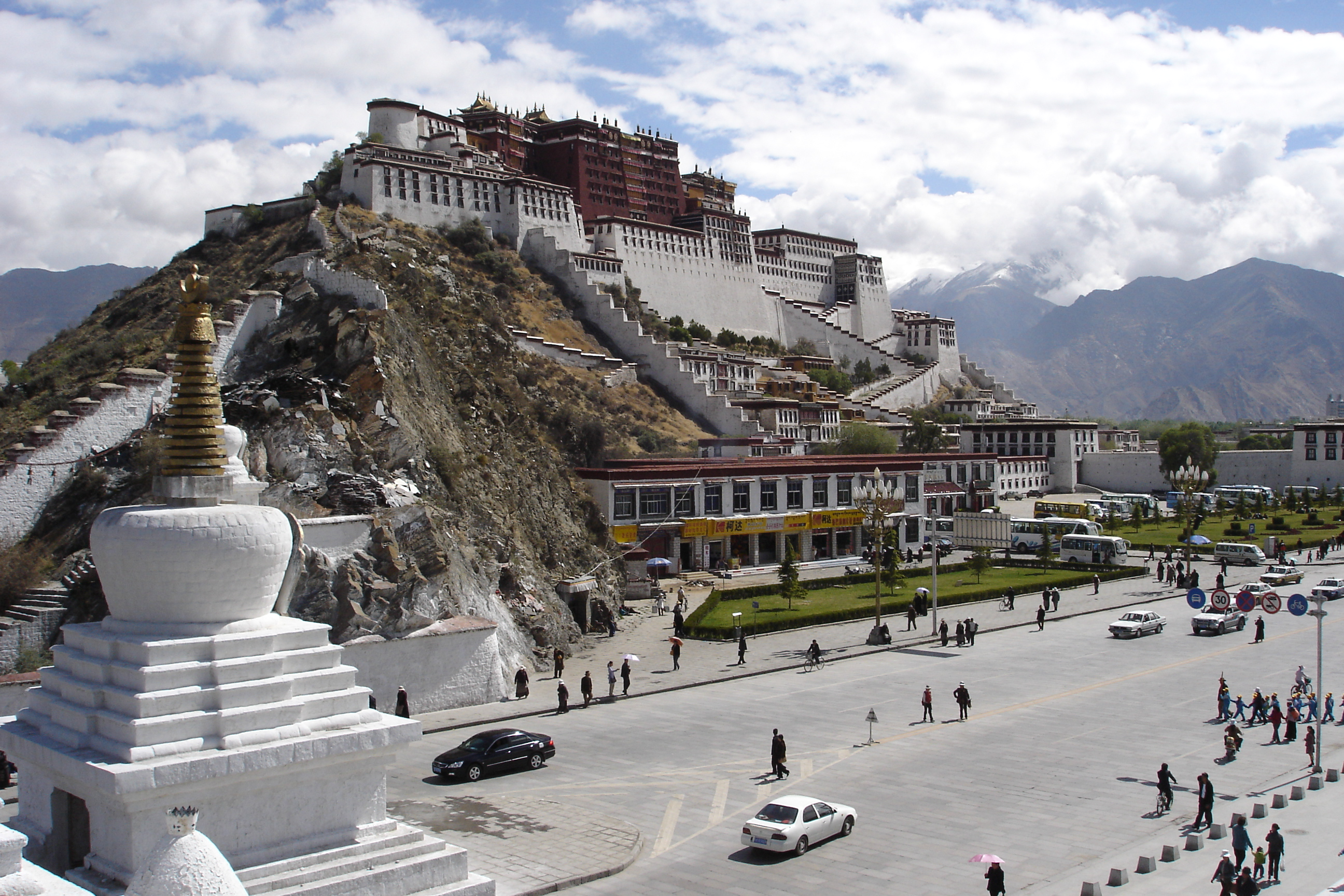 View of the Potala Palace from the foothill of Chagpo Ri (Lhasa, Tibet Autonomous Region, People's Republic of China).